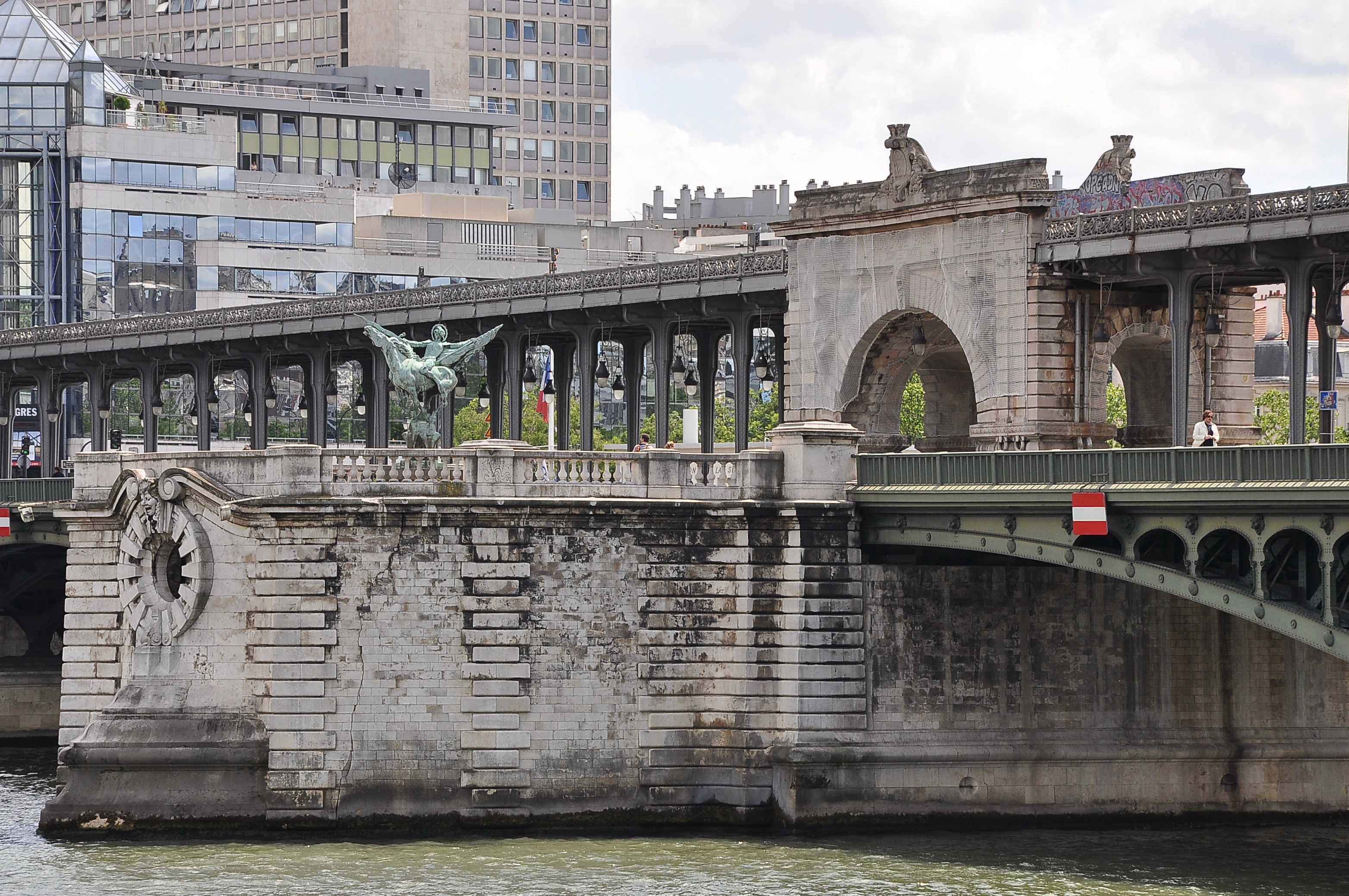 The Pont de Bir-Hakeim, formerly the Viaduc de Passy, is a bridge that crosses the Seine River in Paris, France. It connects the city's 15th and 16th arrondissements, and passes through the île aux Cygnes. .